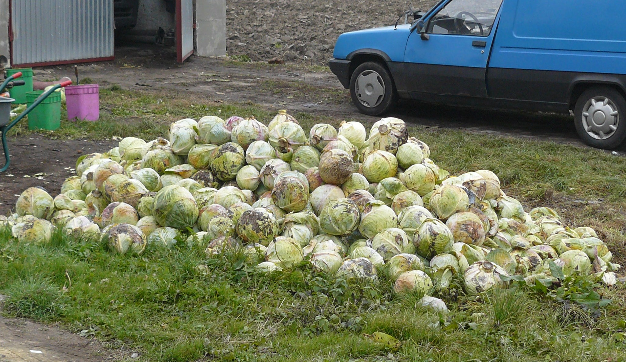 Harvest cabbage in Poland (Zbąszyń). Rotten harvest. Waste.